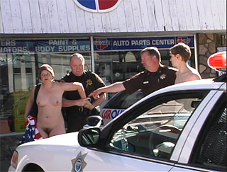 Activists Terri Sue Webb and Daniel Johnson are being handcuffed and led away by police after a protest in Bend, Oregon on 2 May 2002 organized by The Freedom to Be Yourself. Video still taken by Moses, image use courtesy of The Freedom to be Yourself and Body Freedom Collaborative.